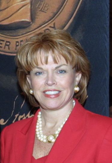 PHOTO CREDIT: ANDERS KRUSBERG / PEABODY AWARDS 61st Annual Peabody Awards Luncheon Waldorf=Astoria Hotel May 20, 2002